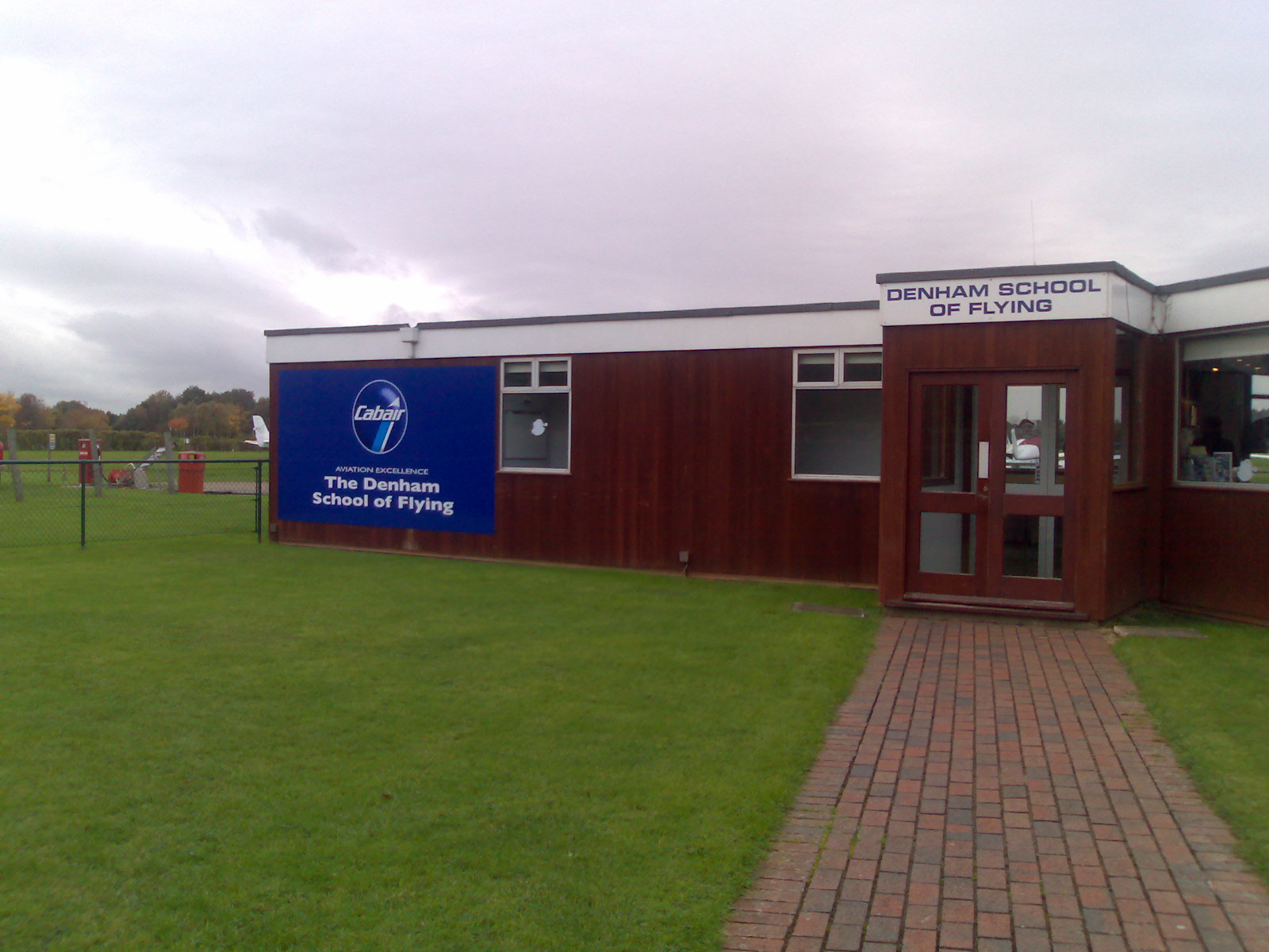 Cabair based at Denham aerodrome